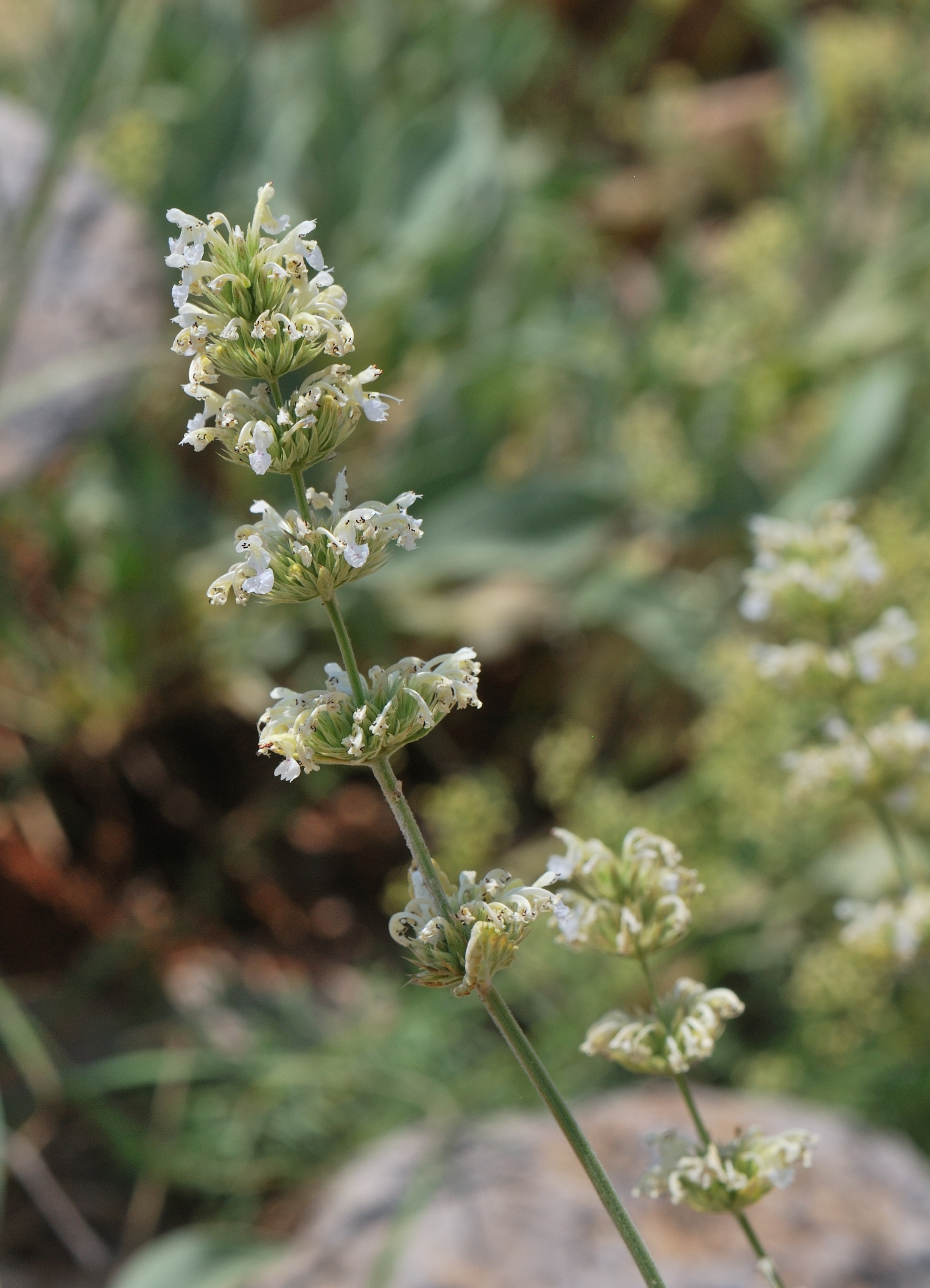 Nepeta italica L., Mount Hermon, Israel/Syria, July 9, 2011.